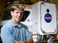 Biomedical engineer and NEEMO 14 aquanaut Andrew Abercromby in front of a NASA Lunar Excursion Vehicle. From NASA photo JSC2009e214437 in public domain.